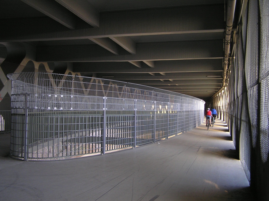 Inside the Mangfall Bridge, Bavaria